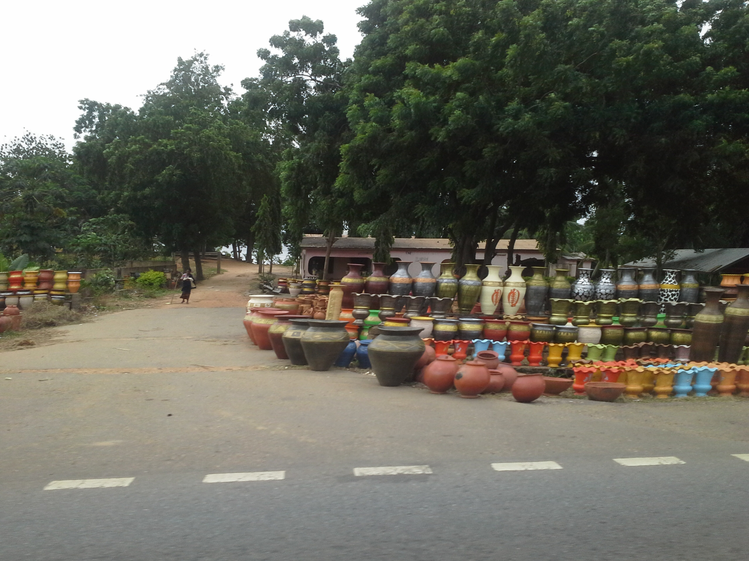 Pots displayed along the N1 highway for sale at Vume, near Sogakope. (Photo taken while in a moving vehicle)